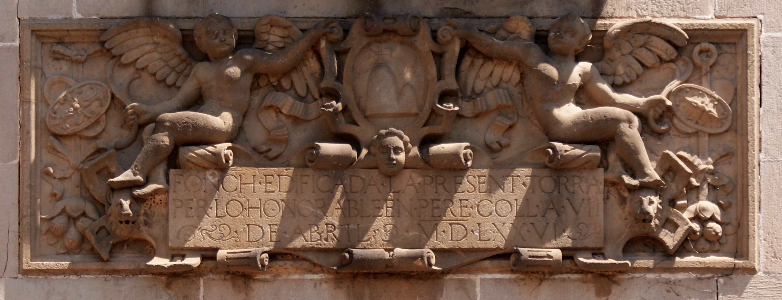 Can Coll Tower engraving at Lliçà de Vall